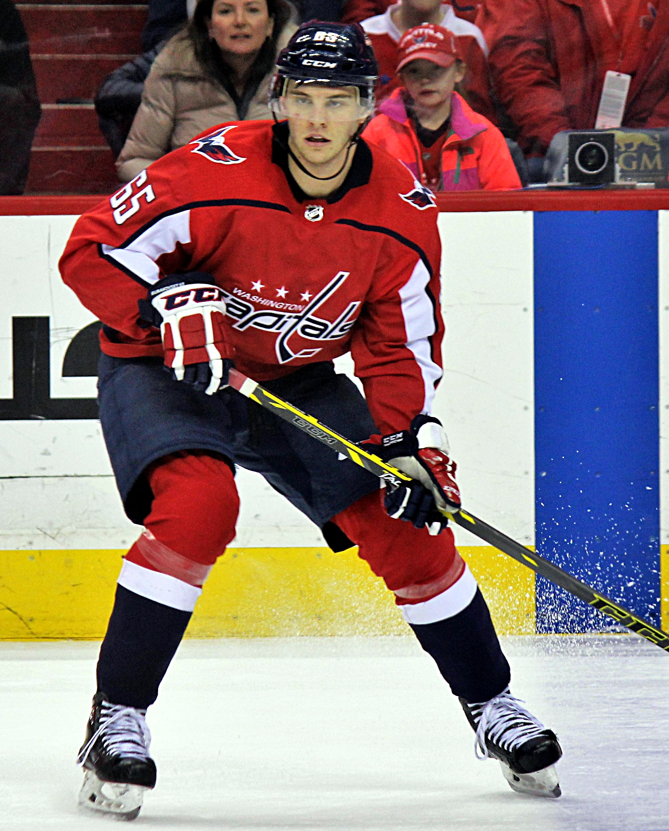 Washington Capitals forward Andre Burakovsky during a game against the Vegas Golden Knights, February 4, 2018, at Capital One Arena in Washington, D.C.